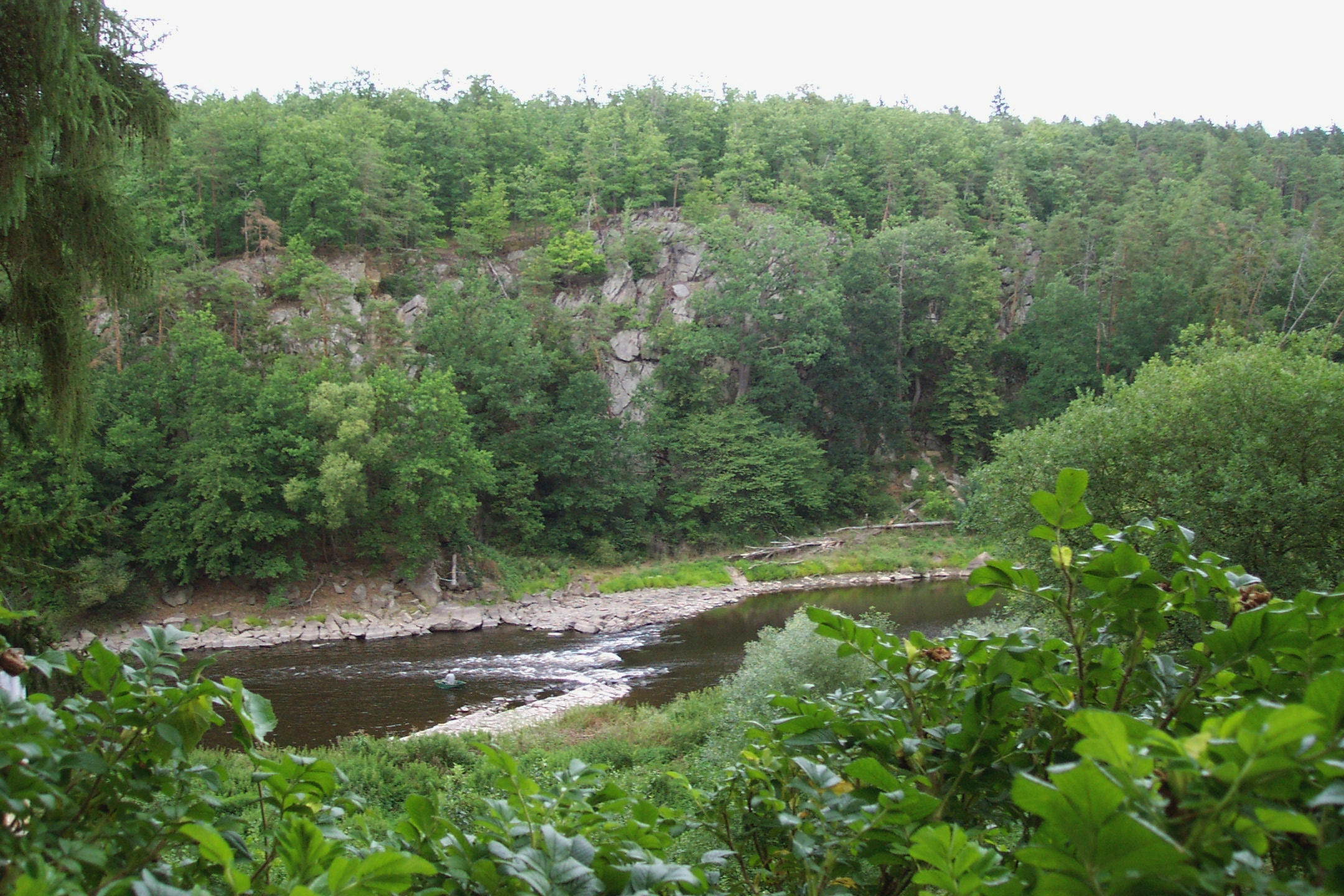 Smetiprach, part of the Čížová village, today recreational area and resort, in the past (19th and first half of 20th Century there were mills